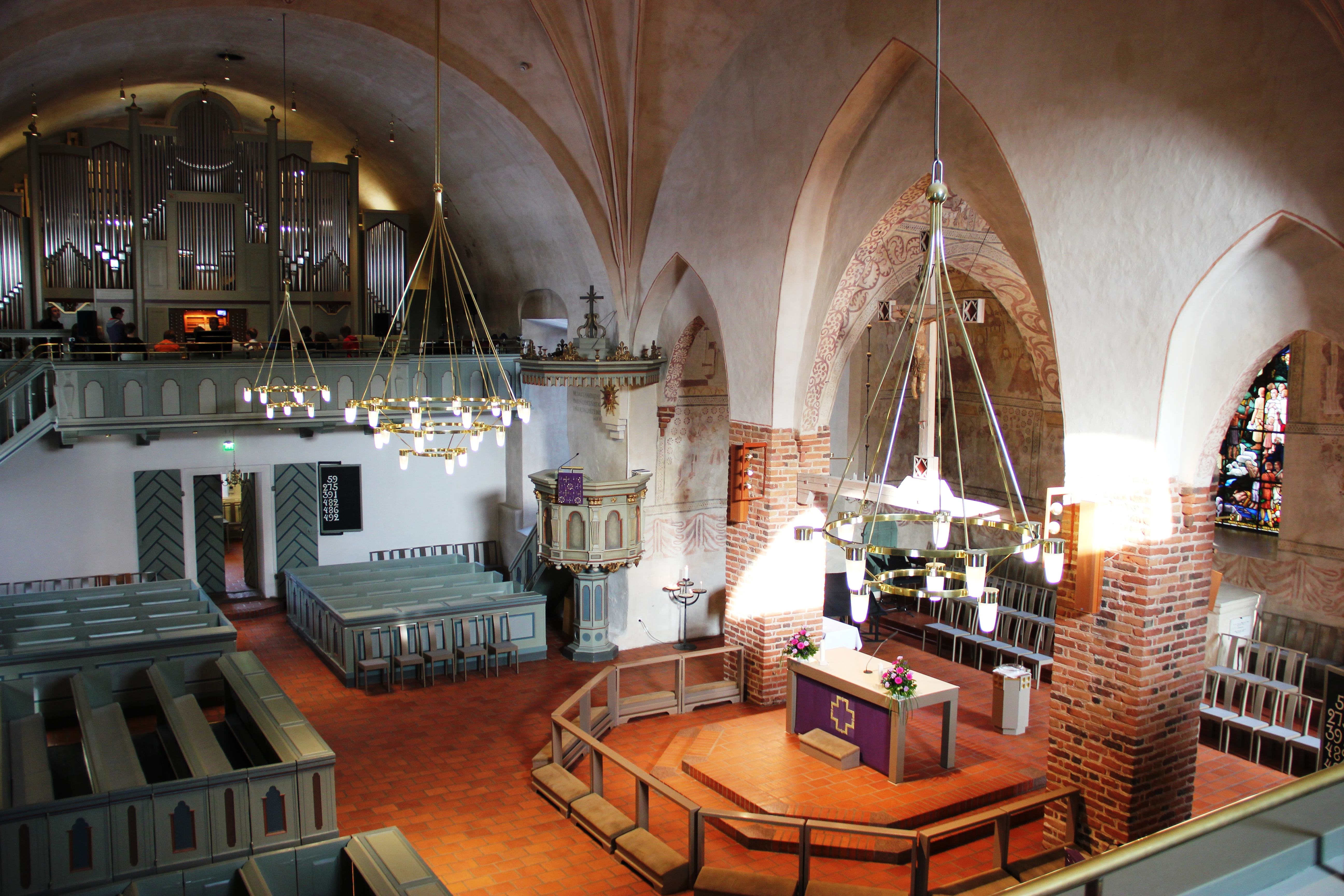 Espoo Cathedral: organ, pulpit, altar (new position 1982)